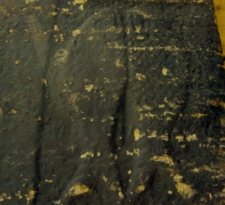 Double fish emblem relief of Pandyan Dynasty - Jatavarman Veera Pandyan I at Koneswaram temple, Trincomalee